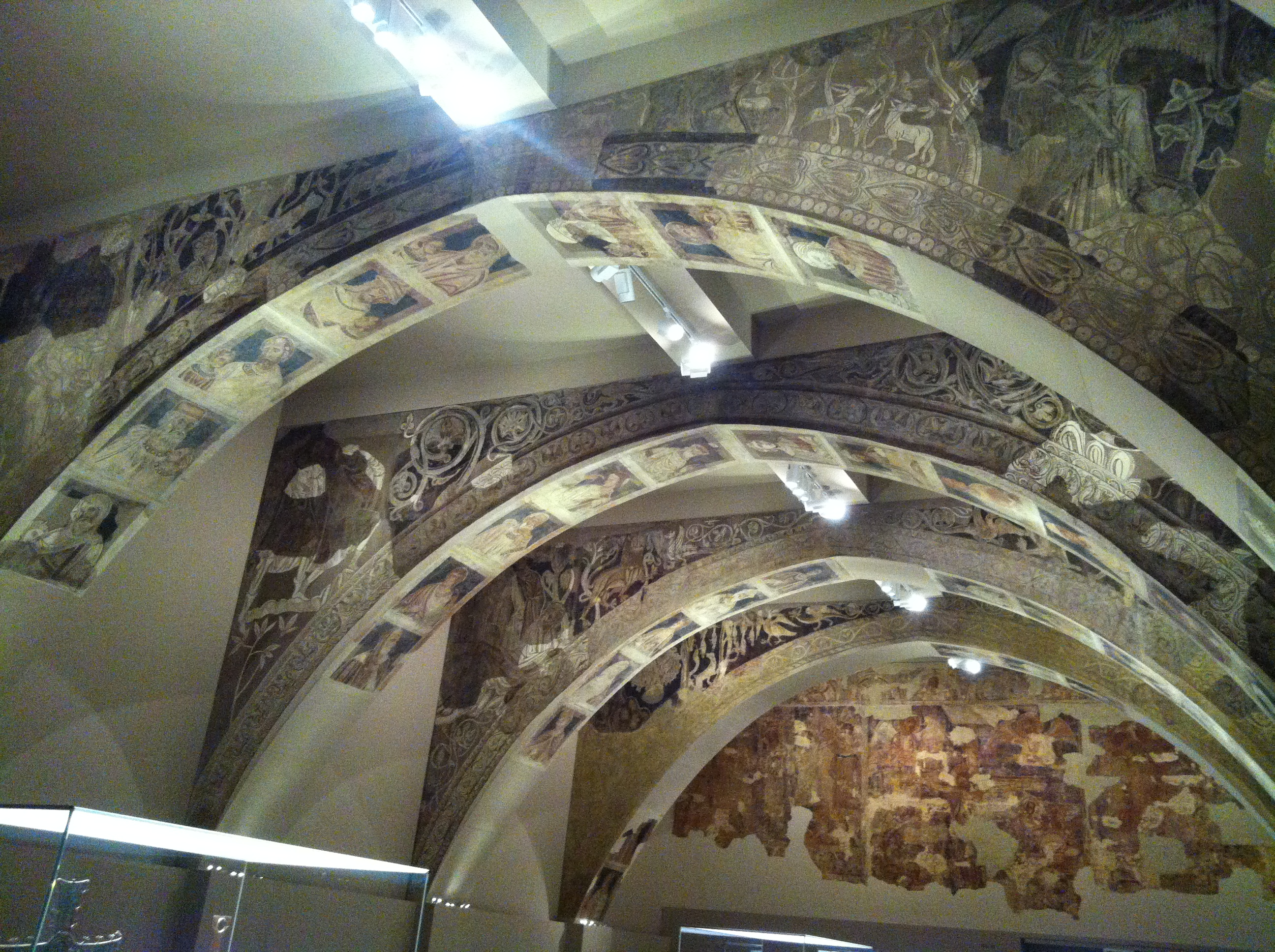 Paintings of the Chapter house of Santa Maria in Sigena, now conserved at MNAC; the National art Museum of Catalonia.